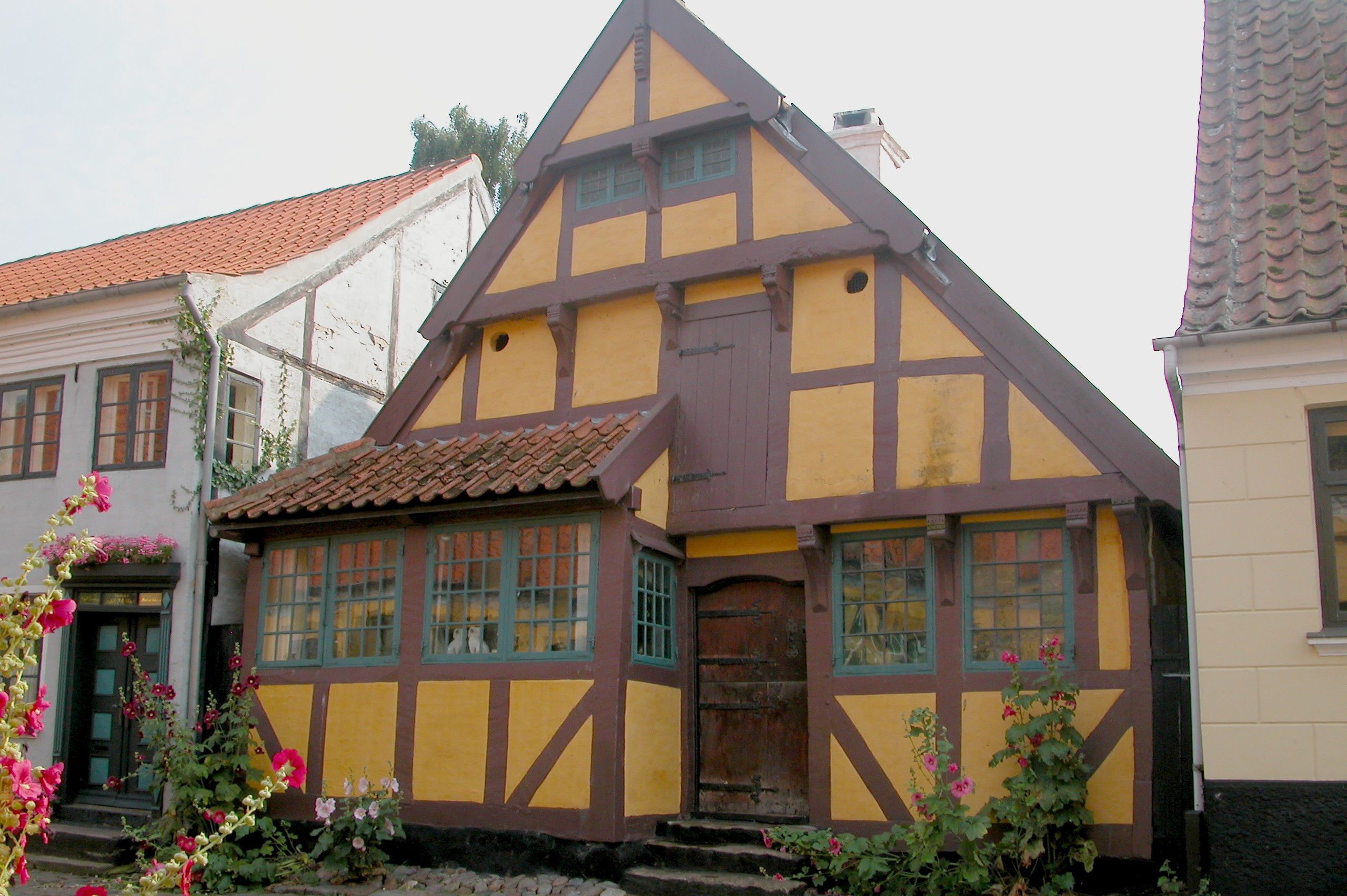 Søndergade, Ærøskøbing, Ærø, Denmark